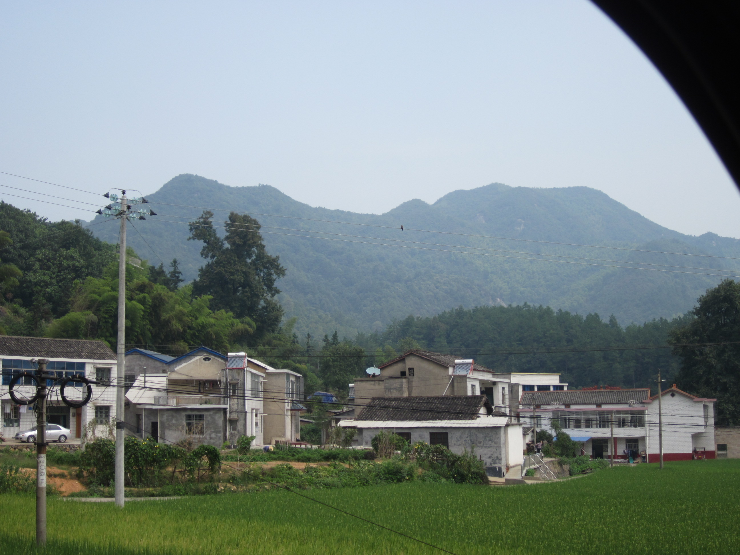 Daping Township (simplified